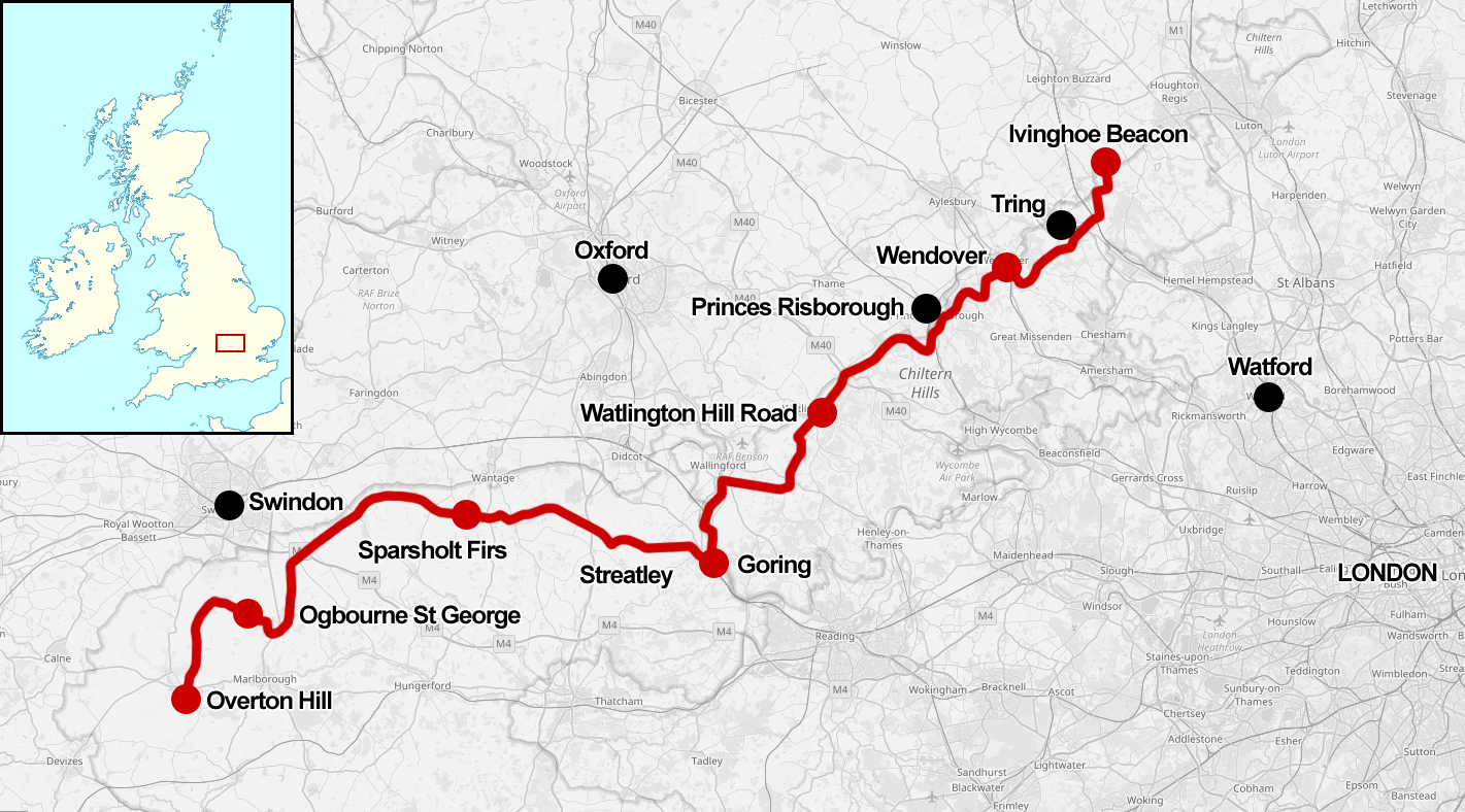 map of the Ridgeway National Trail in the south of England This map may be incomplete, and may contain errors. Don't rely solely on it for navigation.